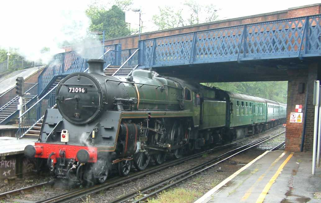 British Railways standard class 5 steam locomotive - 73096 - at Virginia Water railway station, England - 280404 Photo taken by Tagishsimon